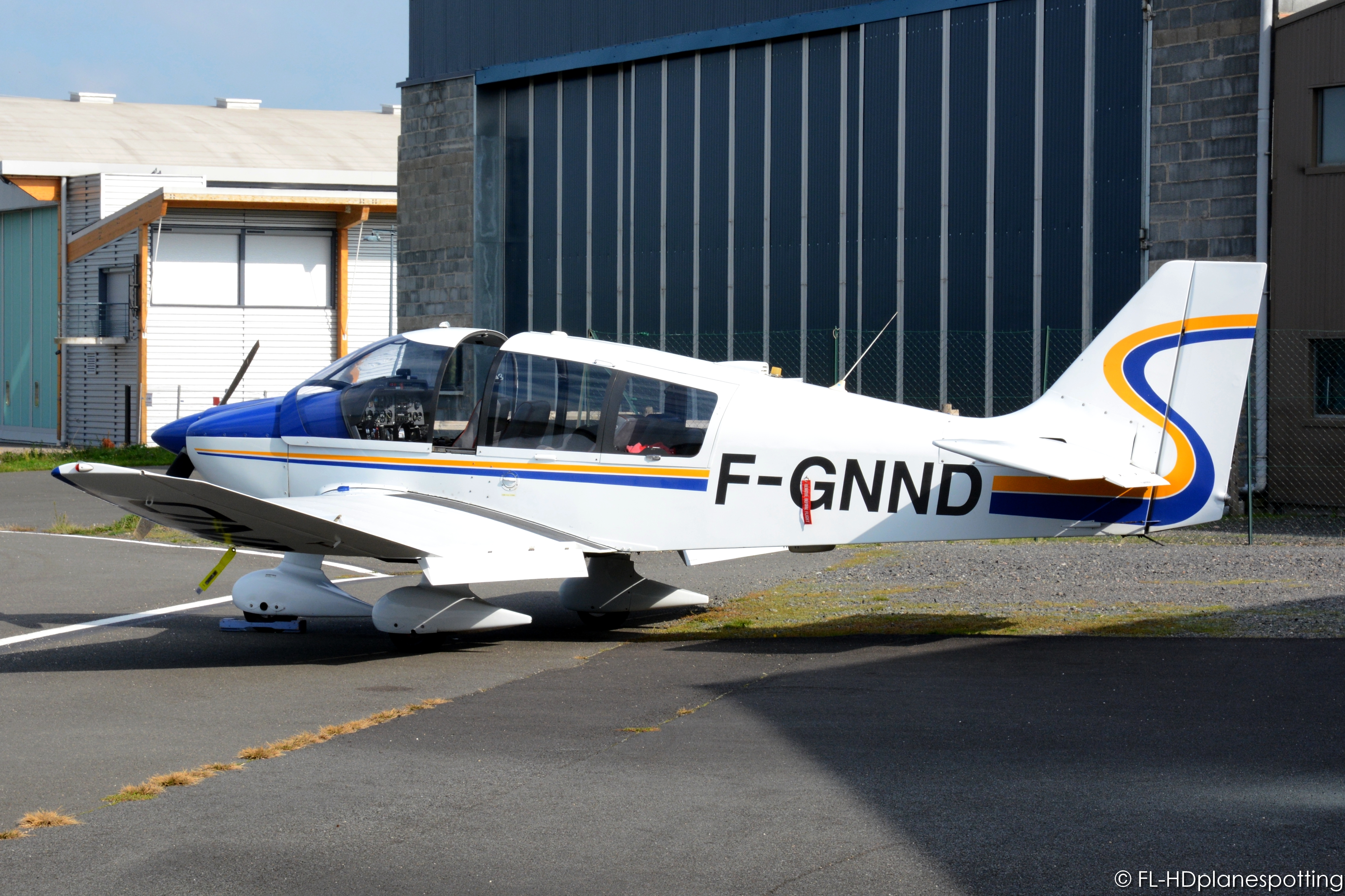 DR400 at Lapalisse airfield